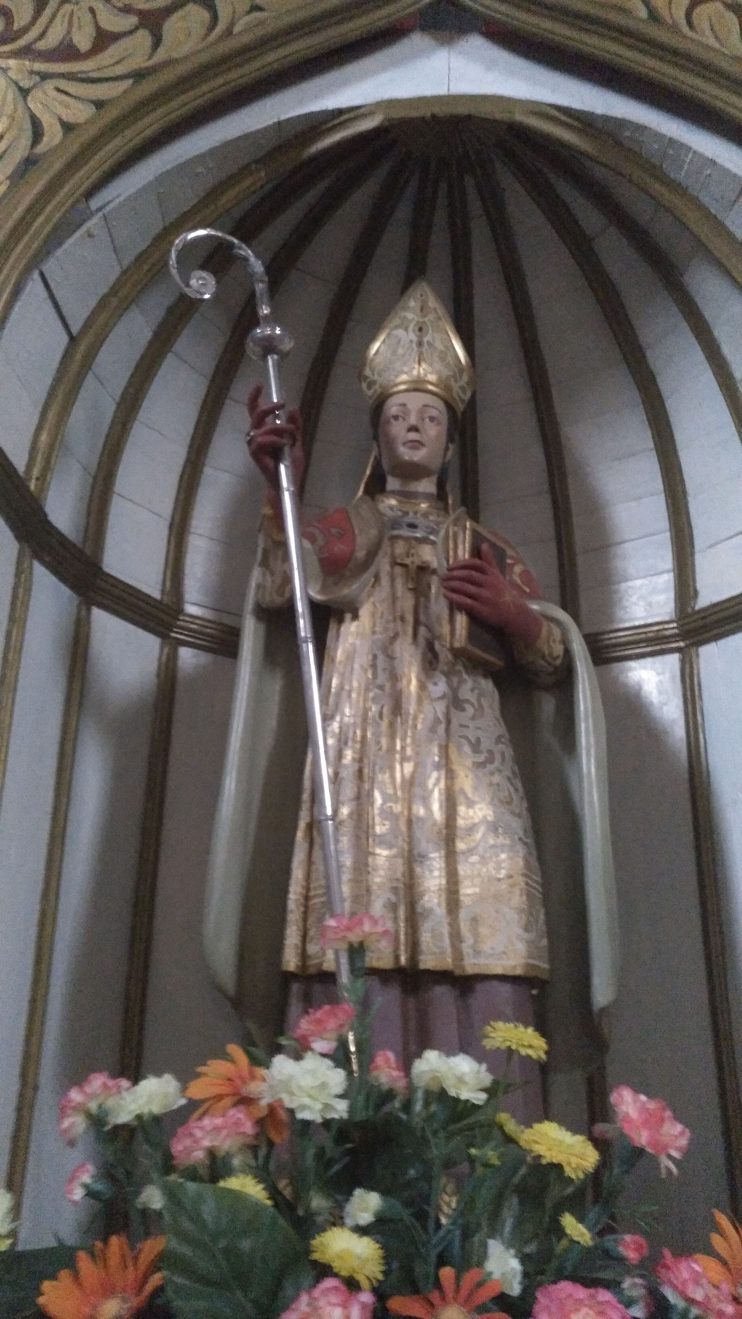 Image of Saint Martial of Limoges (patron saint of Lanzarote) in Femés, Lanzarote.